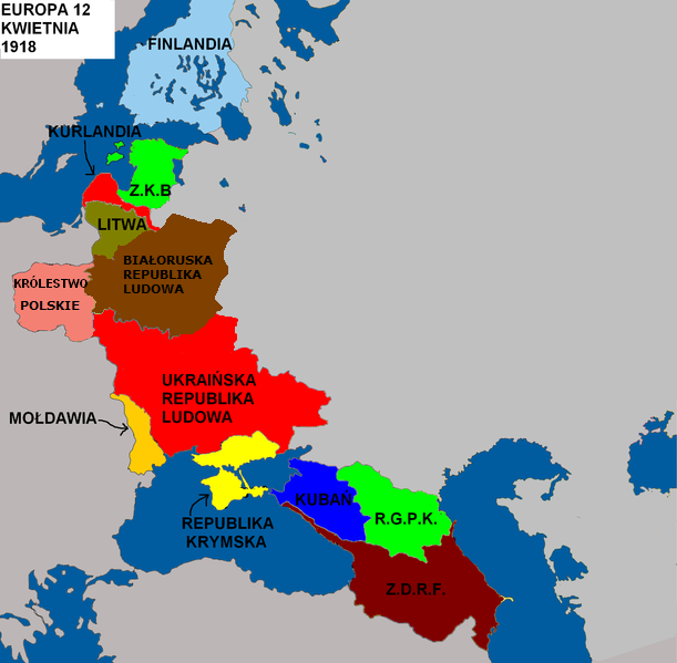 East European states resulting from the collapse of the Russian Empire, late 1918